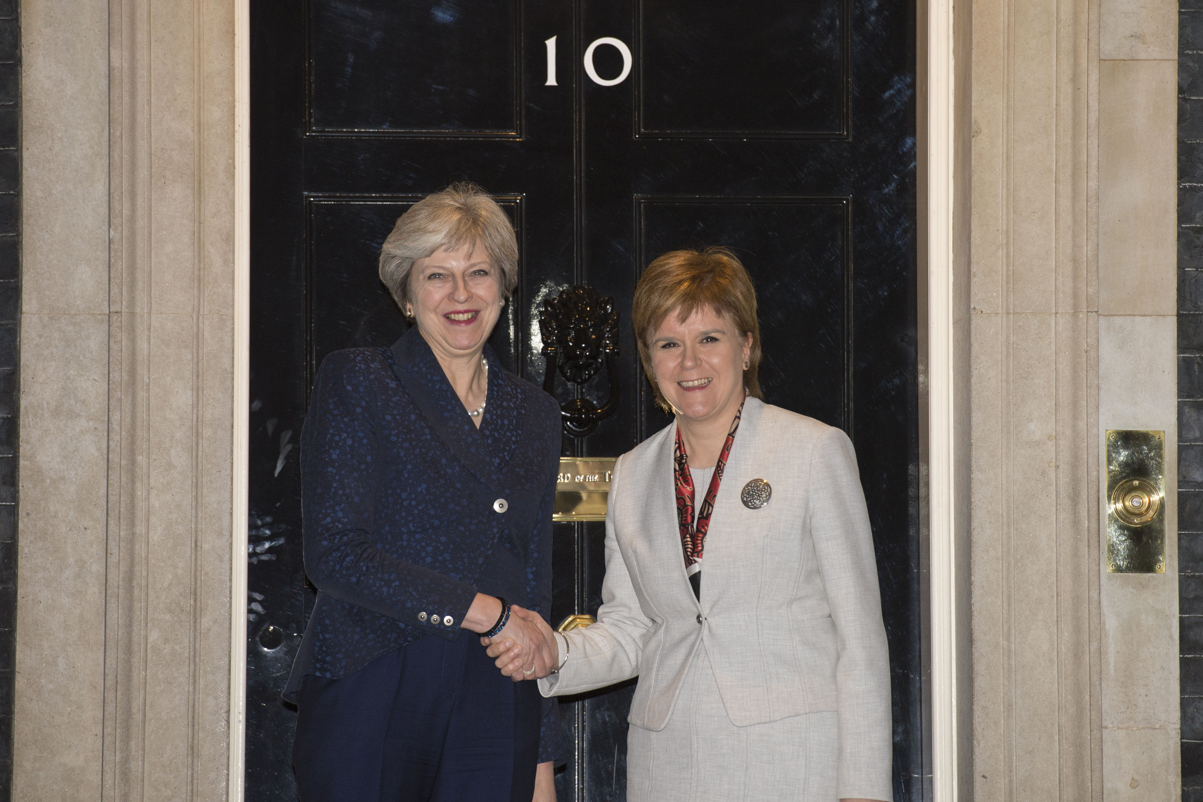 Prime Minister of the United Kingdom Theresa May receives visit from the First Minister of Scotland, Nicola Sturgeon, at 10 Downing Street.